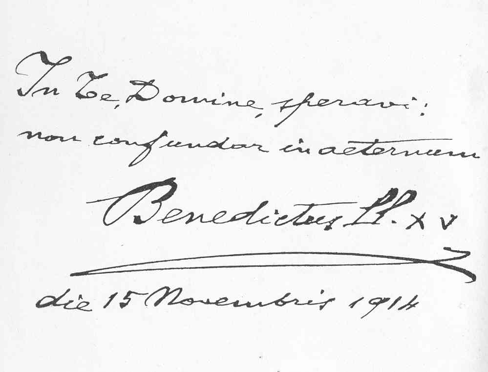 Copyright expired photo of handwriting of Giacomo Della Chiesa in 1914